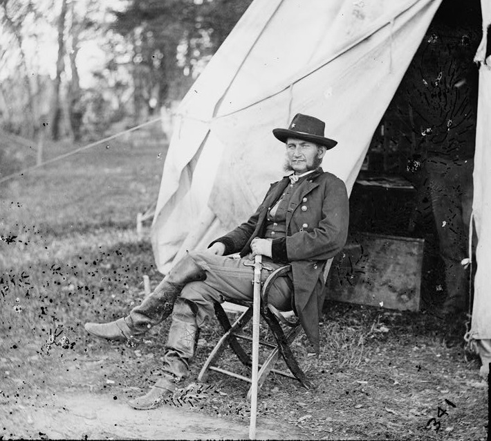 General Hugh Judson Kilpatrick, Warrenton, Virginia.